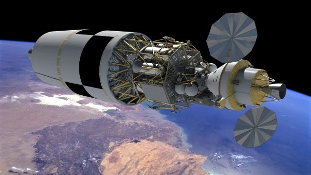 EDS JSC2007e113278, 2007 --- The Earth Departure Stage (EDS) will function as a second stage to circularize the rendezvous orbit with its single J-2X engine and, then, provide the impulse to deliver 65,000 kg to lunar orbit. The Altair lunar lander will rest upon the EDS during launch and only detach upon disposal of the EDS into a solar orbit. As Ares V will not carry crew, it does not have a Launch Escape System. An aerodynamic shell protects Altair during launch and is discarded during ascent as soon as atmospheric drag become negligible.